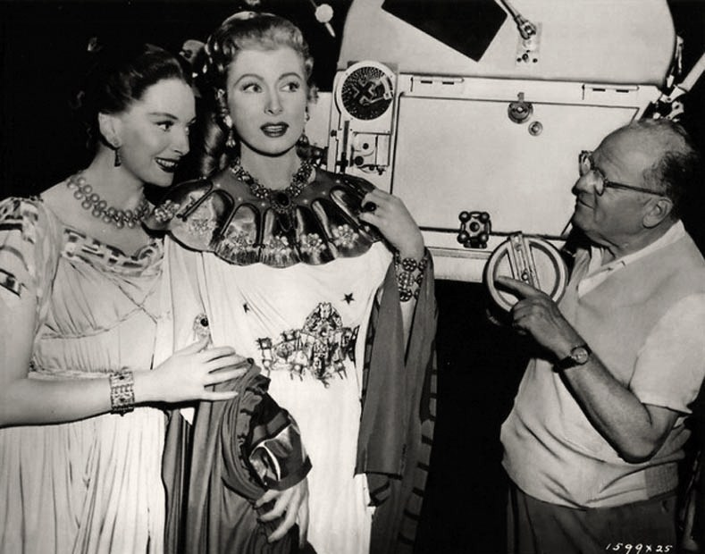 L. to R. : Deborah Kerr, Greer Garson & Joseph Ruttenberg (cinematographer) on the set of Julius Caesar - publicity still